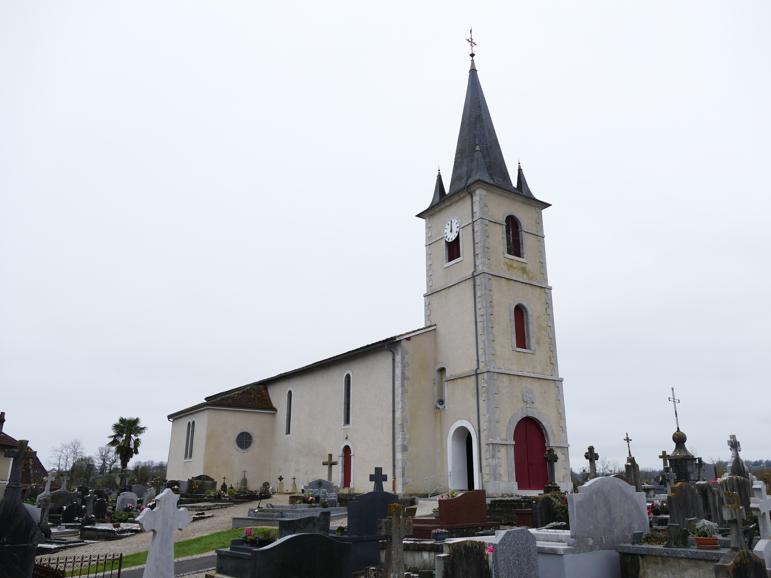 Saint-Vincent-Saint-Barthélémy's church in Baigts-de-Béarn (Béarn, Nouvelle-Aquitaine, France).